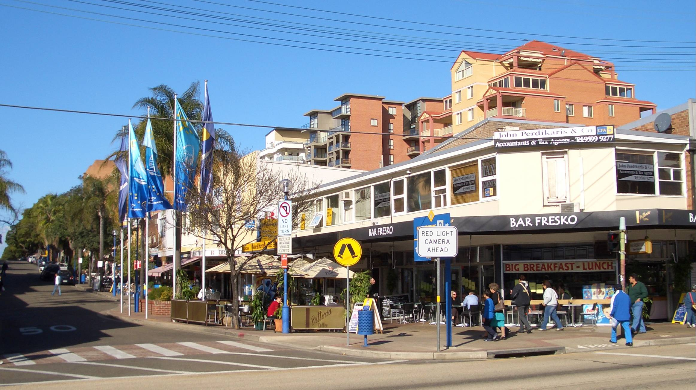 Cafes in Rockdale, Sydney, Australia.